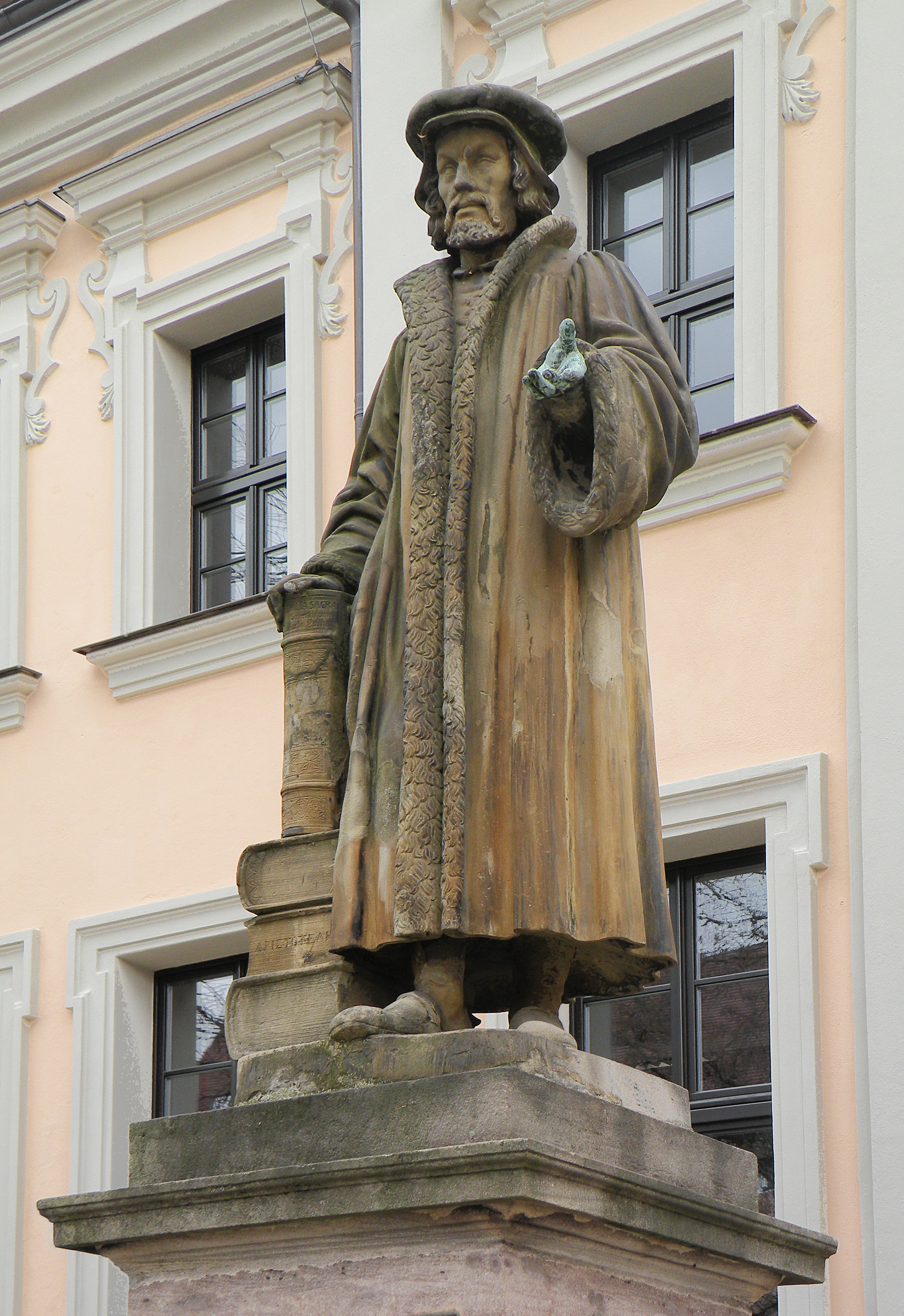 Philipp_Melanchthon monument in Nuremberg.